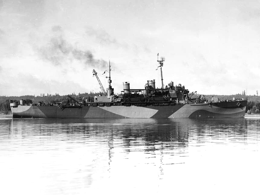 The U.S. Navy vehicle landing ship USS Ozark (LSV-2) underway near her builders yard, Willamette Iron & Steel Corporation, Portland, Oregon (USA), on 16 September 1944. Her two superfiring 127 mm/38 gun mounts were removed before she left the shipyard in early October. Ozark is painted in Camouflage Measure 31, Design 15L.